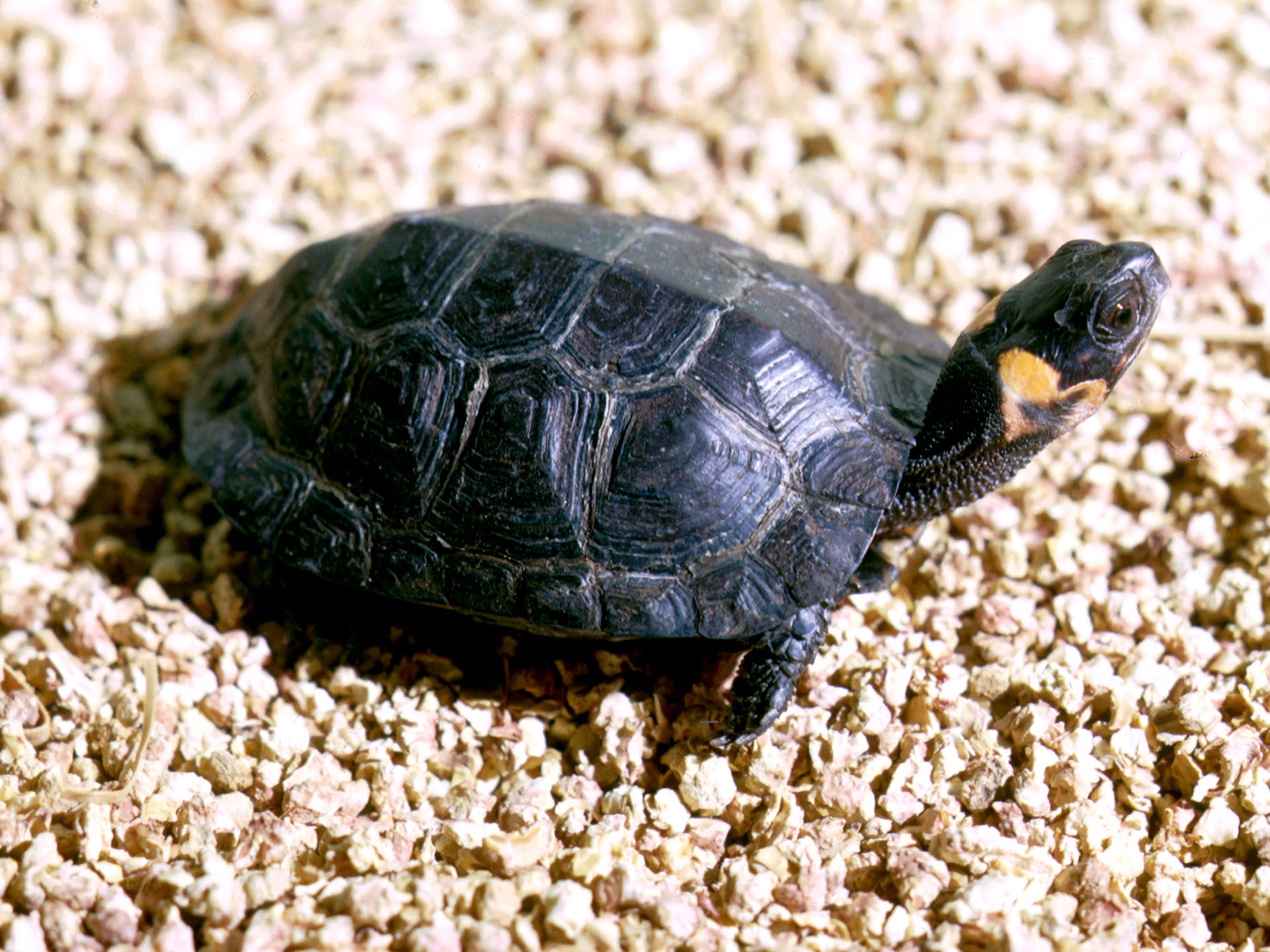 Bog turtle sunning